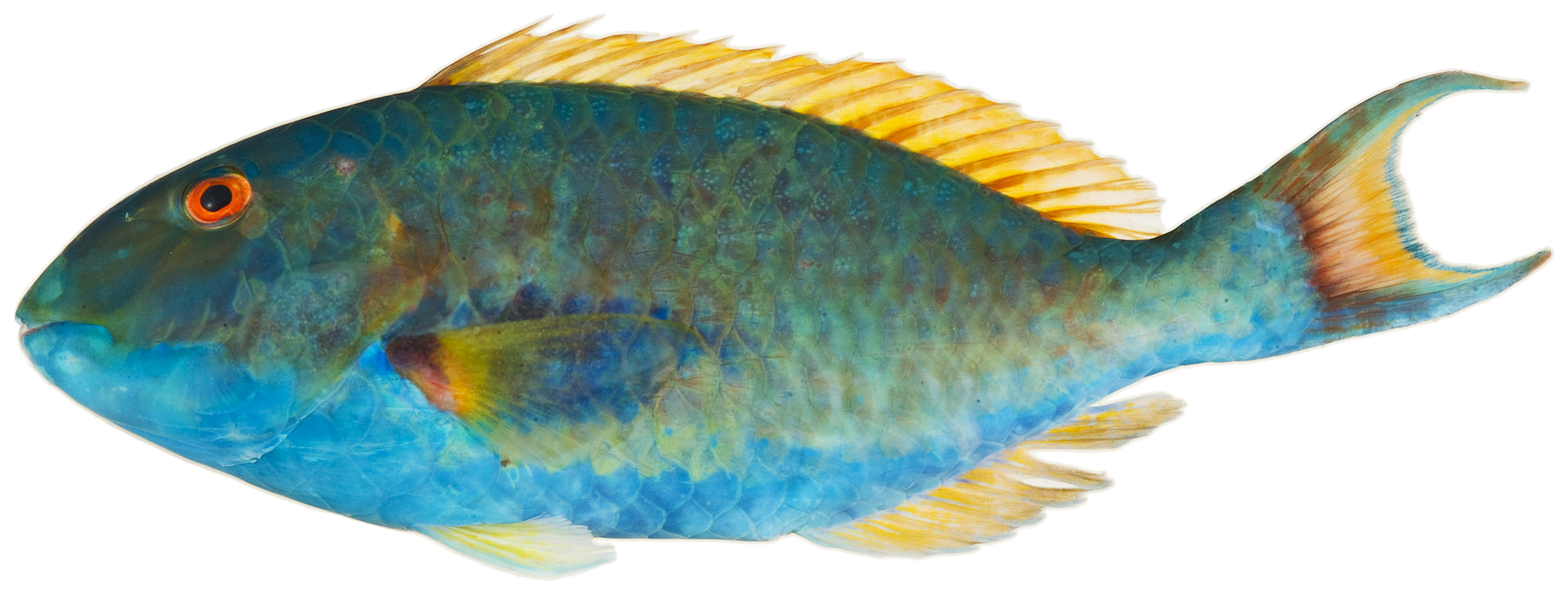 Sparisoma chrysopterum (Bloch & Schneider, 1801)—redtail parrotfish, 274 mm SL, terminal male color phase. Photo by JT Williams.